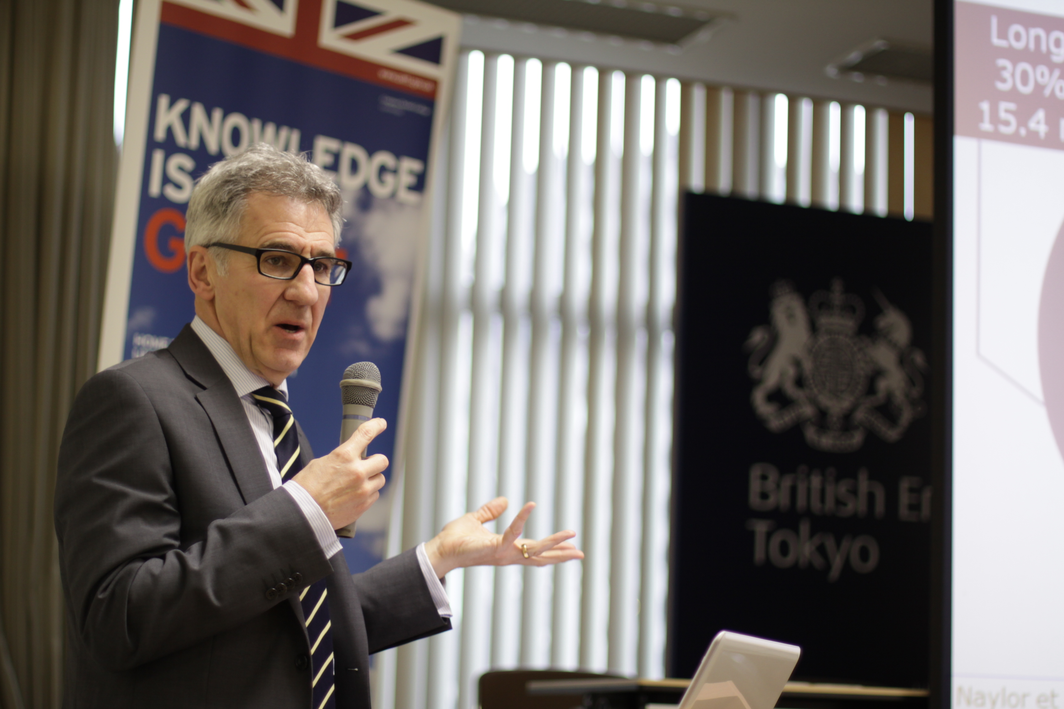 Professor Martin Knapp of London School of Economics (LSE) and King’s College London